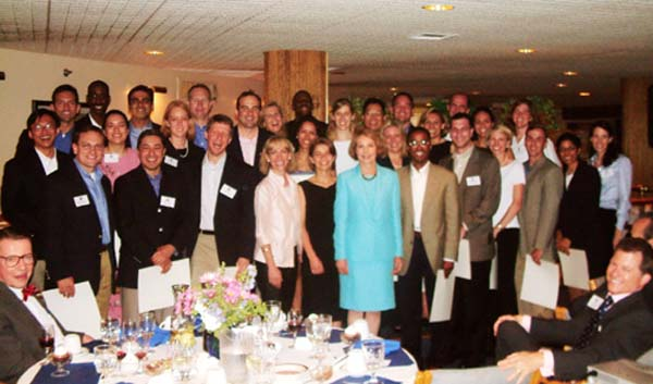 Commission Chair Julie Nixon Eisenhower, Program Director Jocelyn White, and the National Finalists at Selection Weekend 2003 in Annapolis, Maryland.